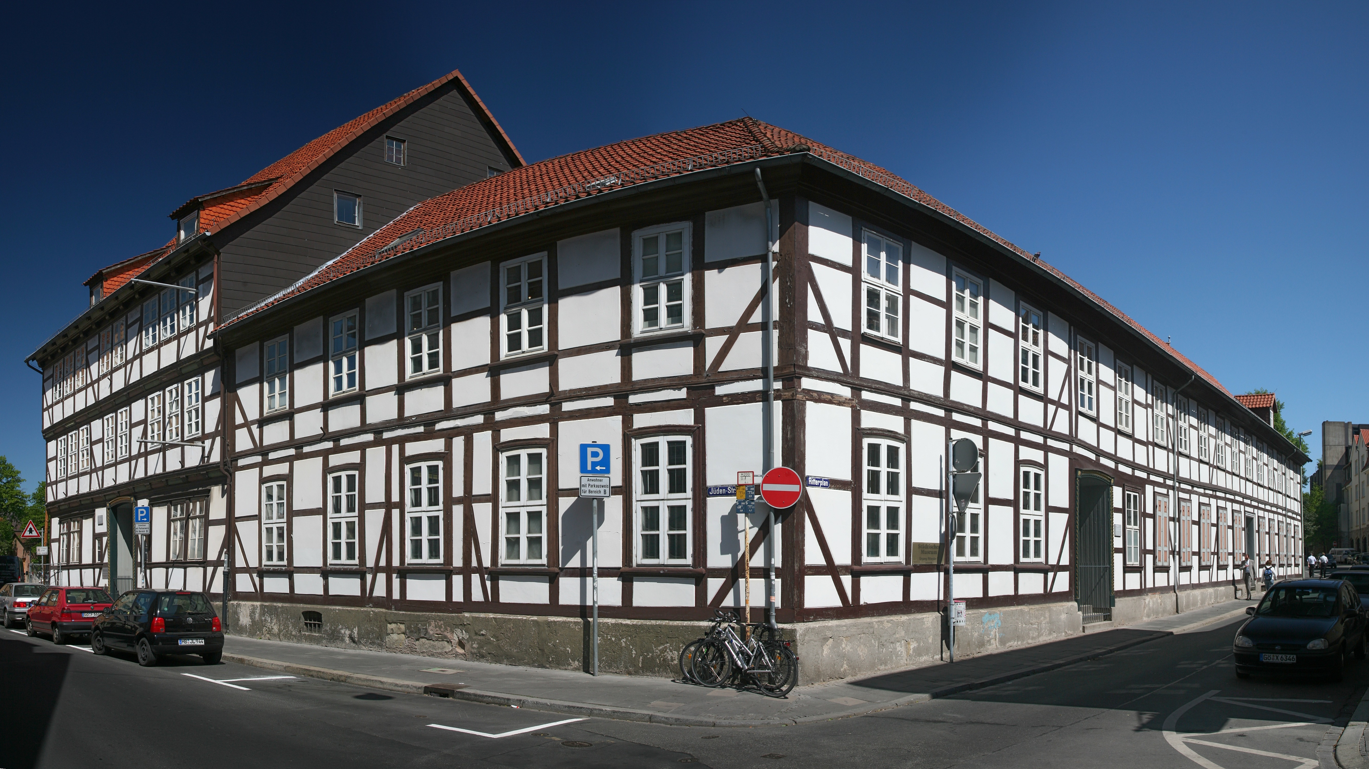 City Museum Göttingen, Germany